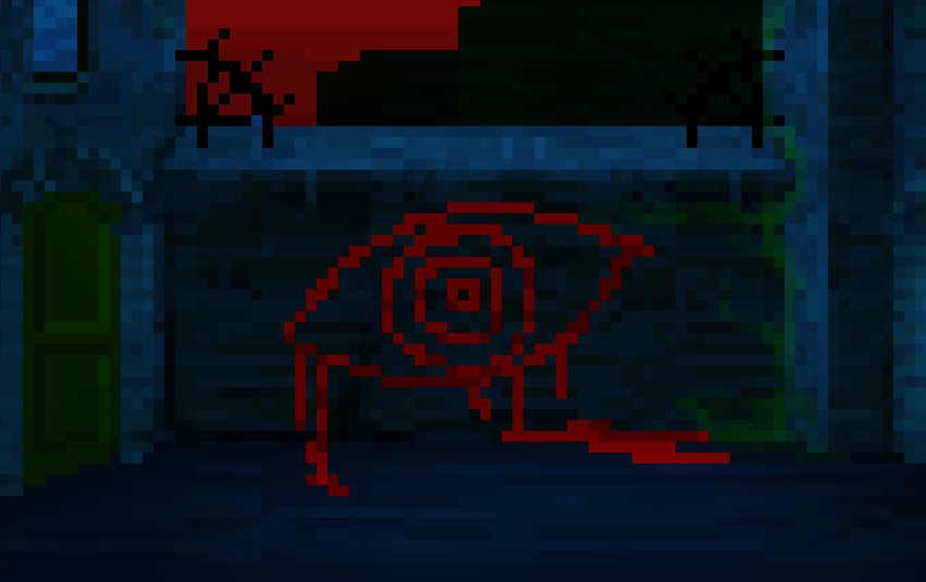 Eye draw made on a wall using the assets from here released to Commons.